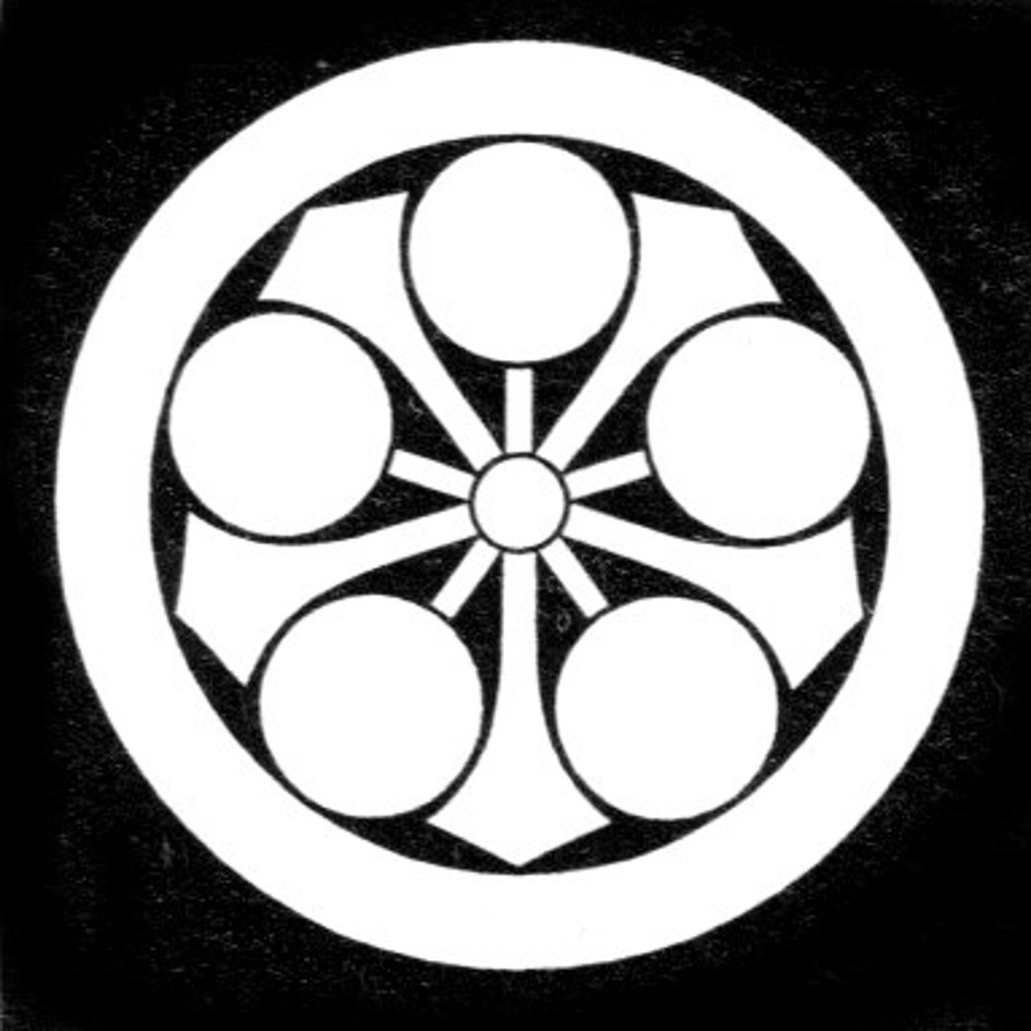 Crest of Hisamatsu Yasumoto line